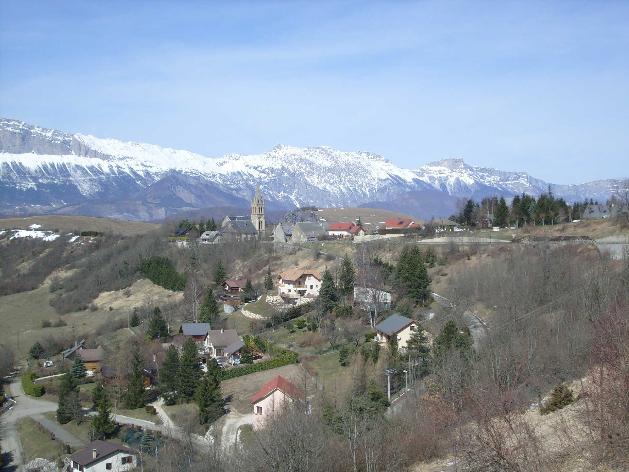 Monteynard. Vercors massif in the background( Isère, France).